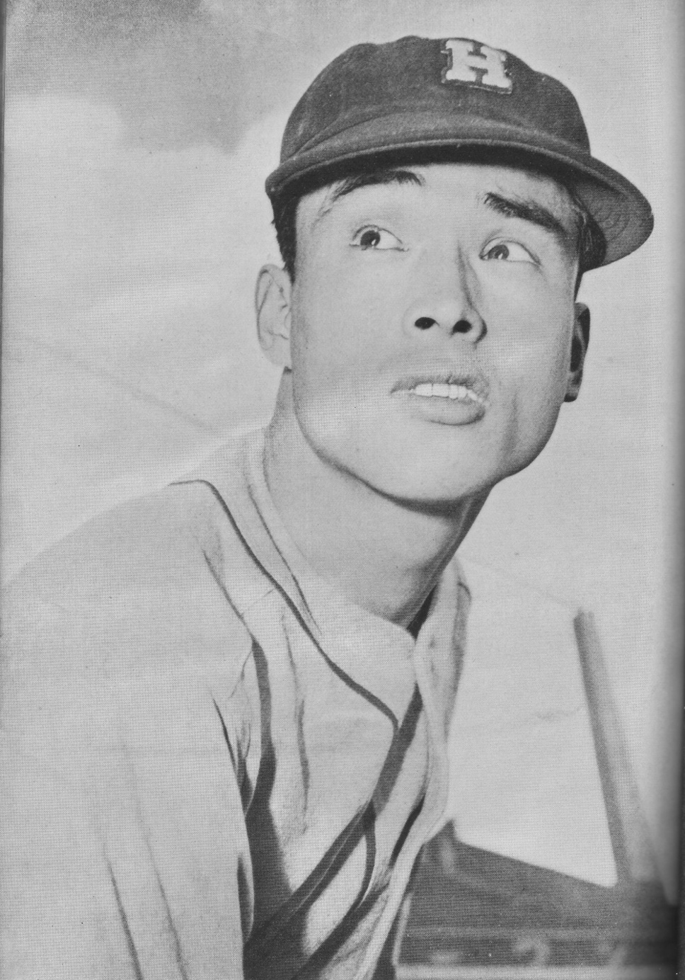 Yoshio Tempo (Hankyu Braves). taken in 1950.